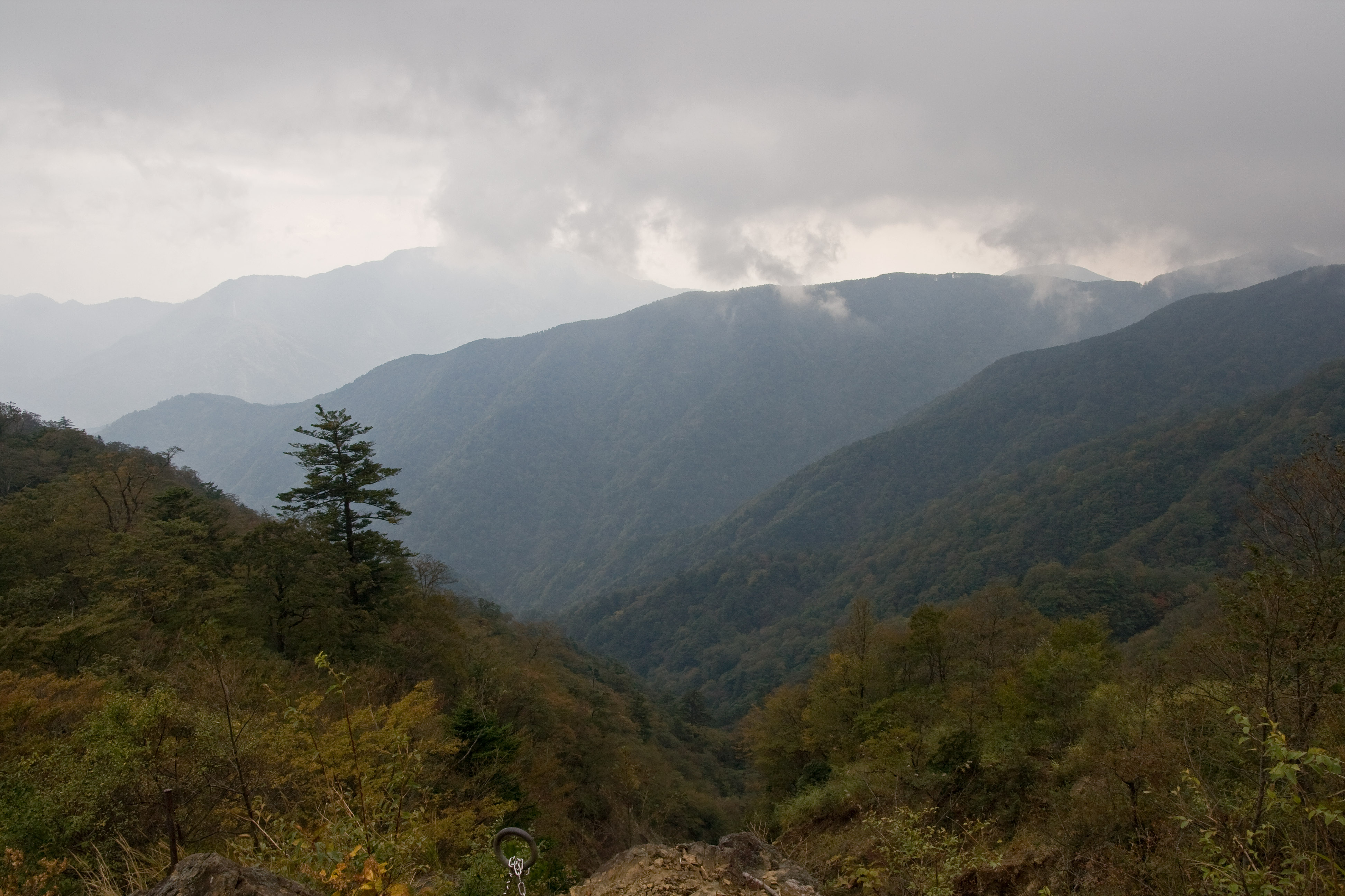 Nagao Ridge, Tanzawa Mountains, Kanagawa Pref., Japan.